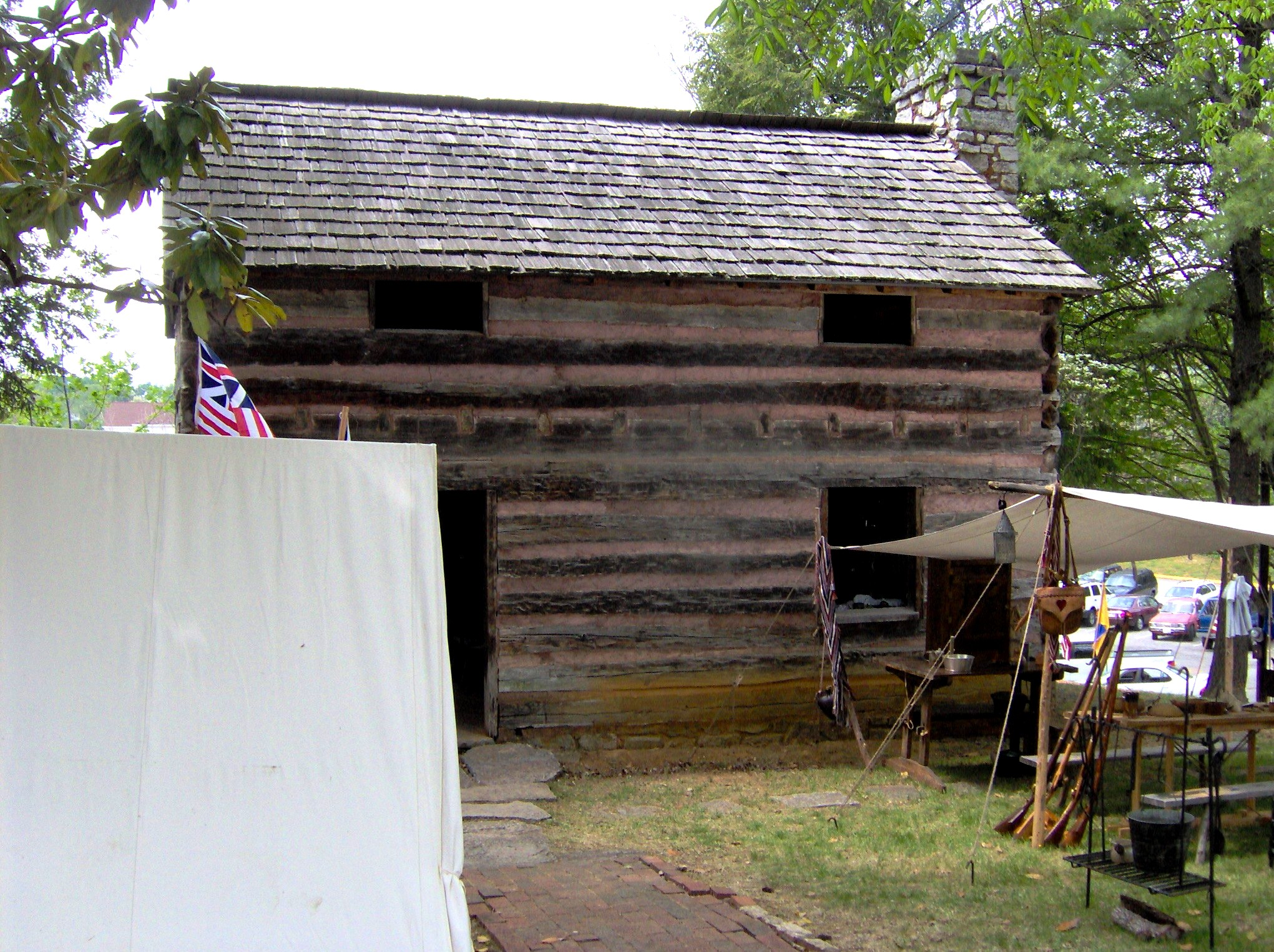 Replica of the Capitol of the State of Franklin in Greeneville, Tennessee, in the southeastern United States. This crude log structure was constructed in 1966, based on dimensions in historical records. Greeneville was the capital of the failed State of Franklin in the 1780s.